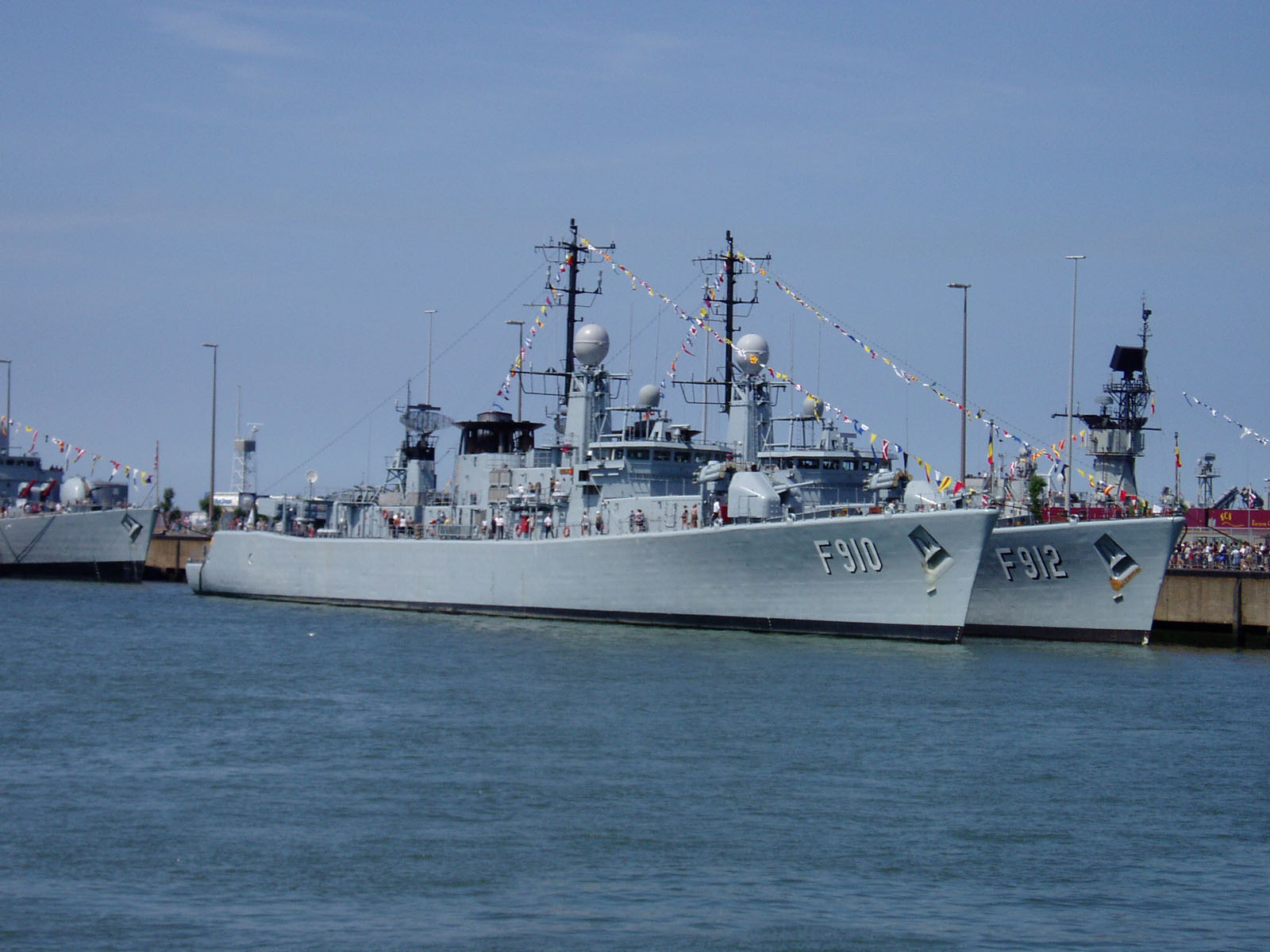 Wielingen (F910) at Zeebrugge Naval Festival, 12th July 2003.